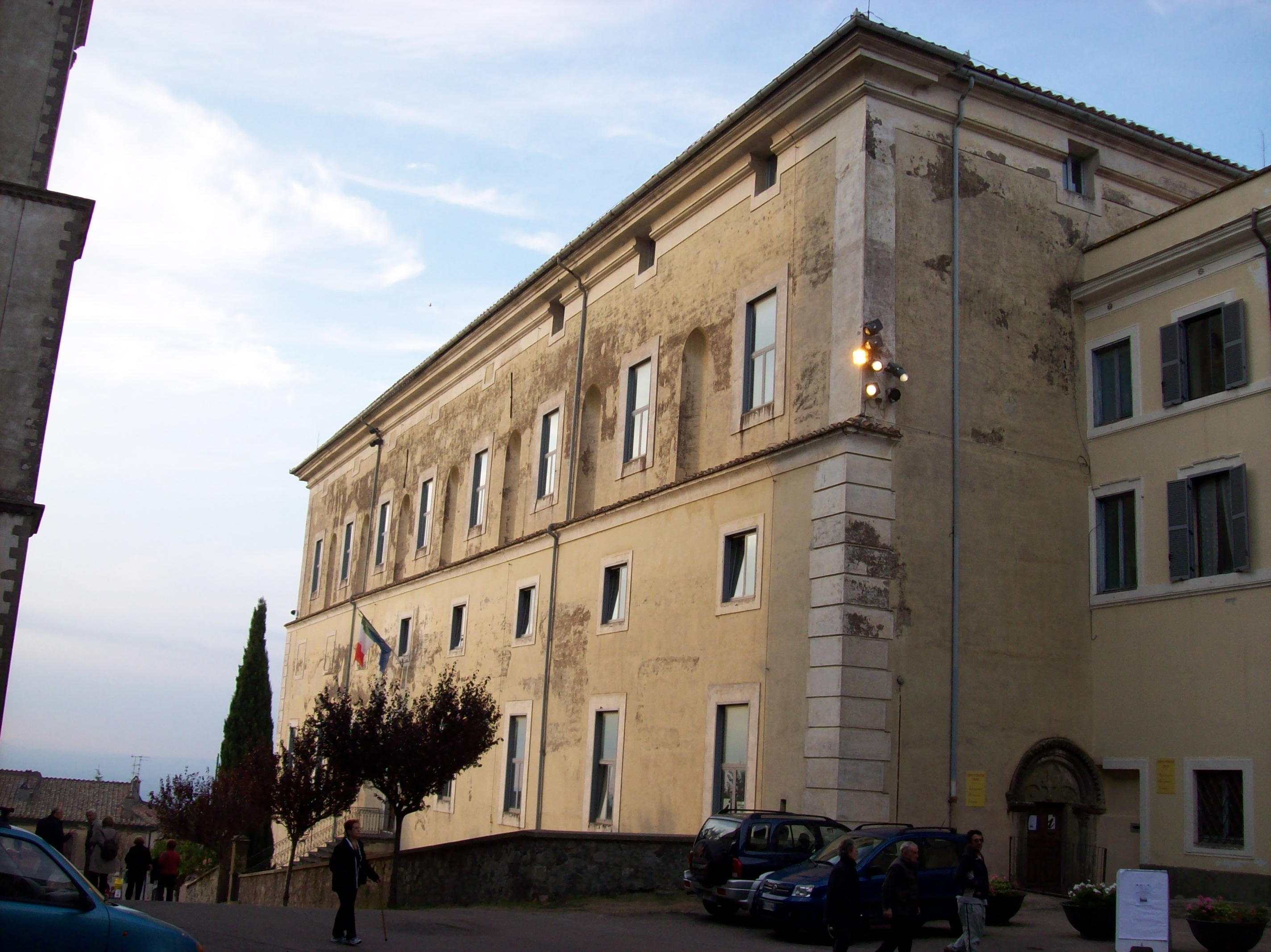 Doria Pamphilj palace in San Martino al Cimino, Viterbo, Italy